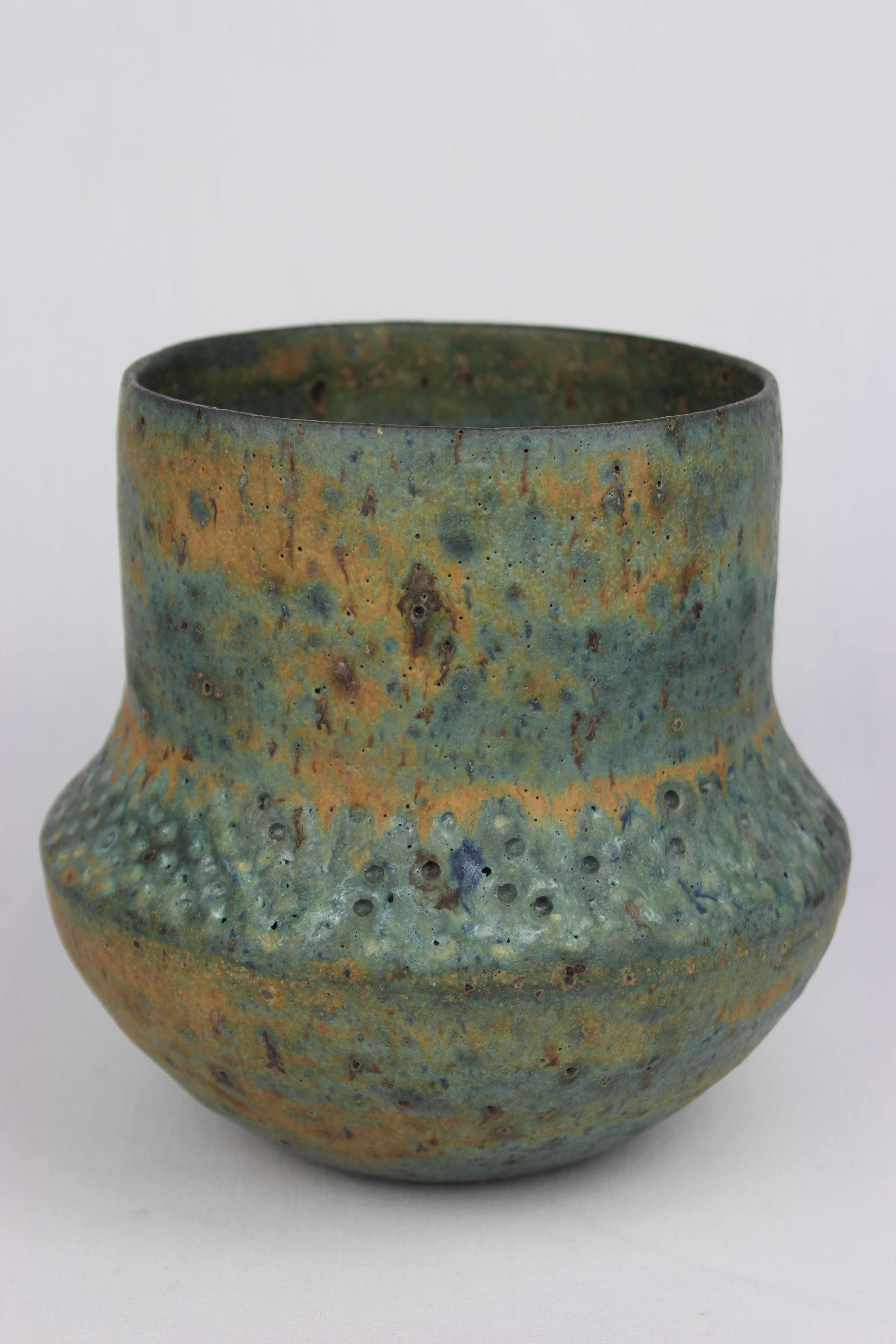 Vase with bulbous lower and straight rim. Rust and green glazes with dimples around the middle, (Ismay referred to as overfired). From the W.A. Ismay Studio Pottery Collection at York Art Gallery